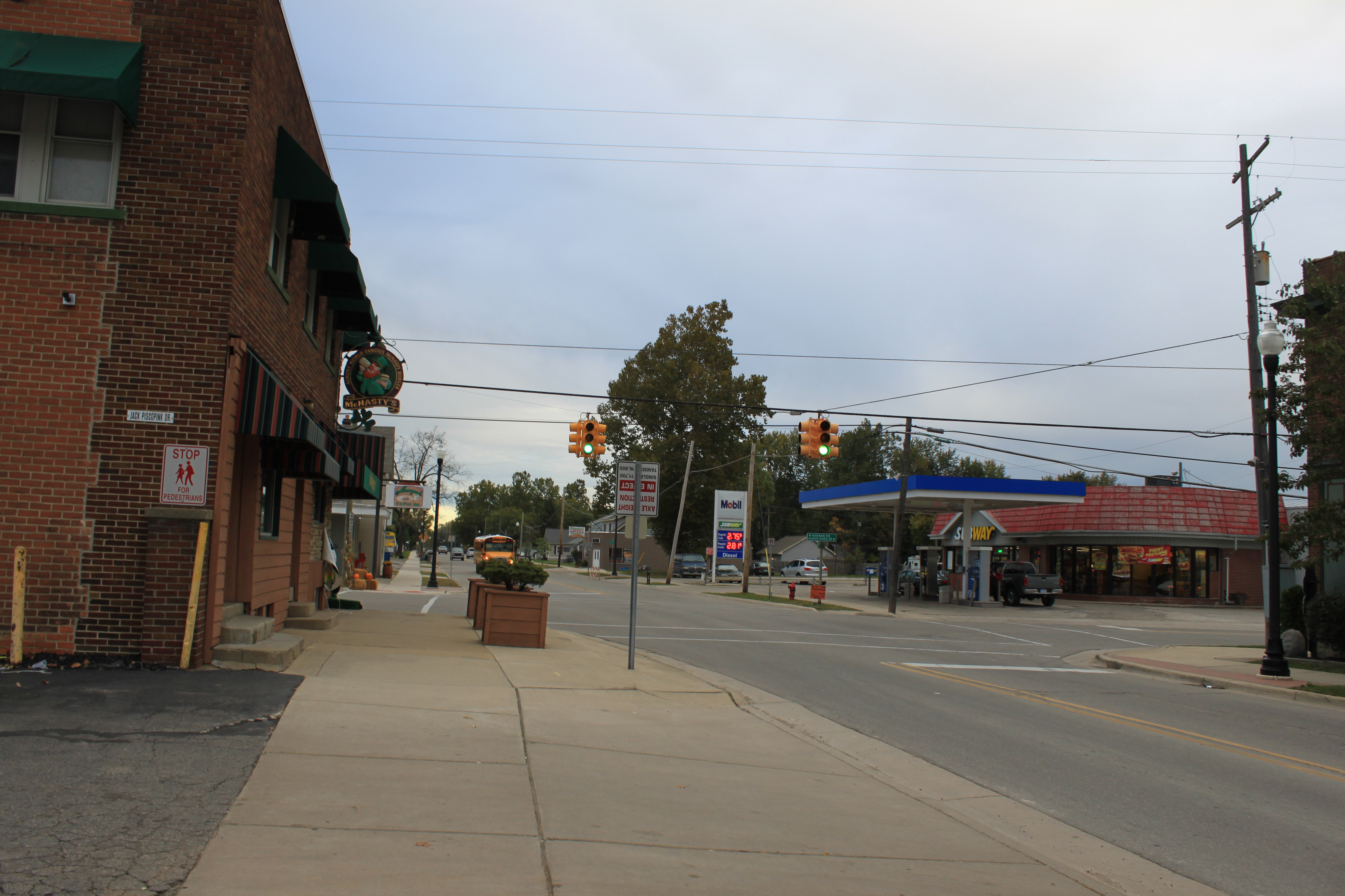 New Boston Michigan central business district, intersection of Hannan Road and Huron River Drive, viewed from Waltz Road.